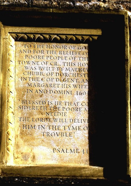 Chubb's Almshouses - inscription The stone inscription reads: "To the honor of God and for the relief of the poore people of the towne of Cr., this house was built by Mathew Chubb, of Dorchester,in the C of D,Gent,and Margaret his wife, in Ano Domini 1604. 'Blessed is he that considereth the poore and needie. The Lord will deliver him in the tyme of trouble.' Psalm 41"